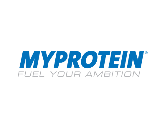 Myprotein logo